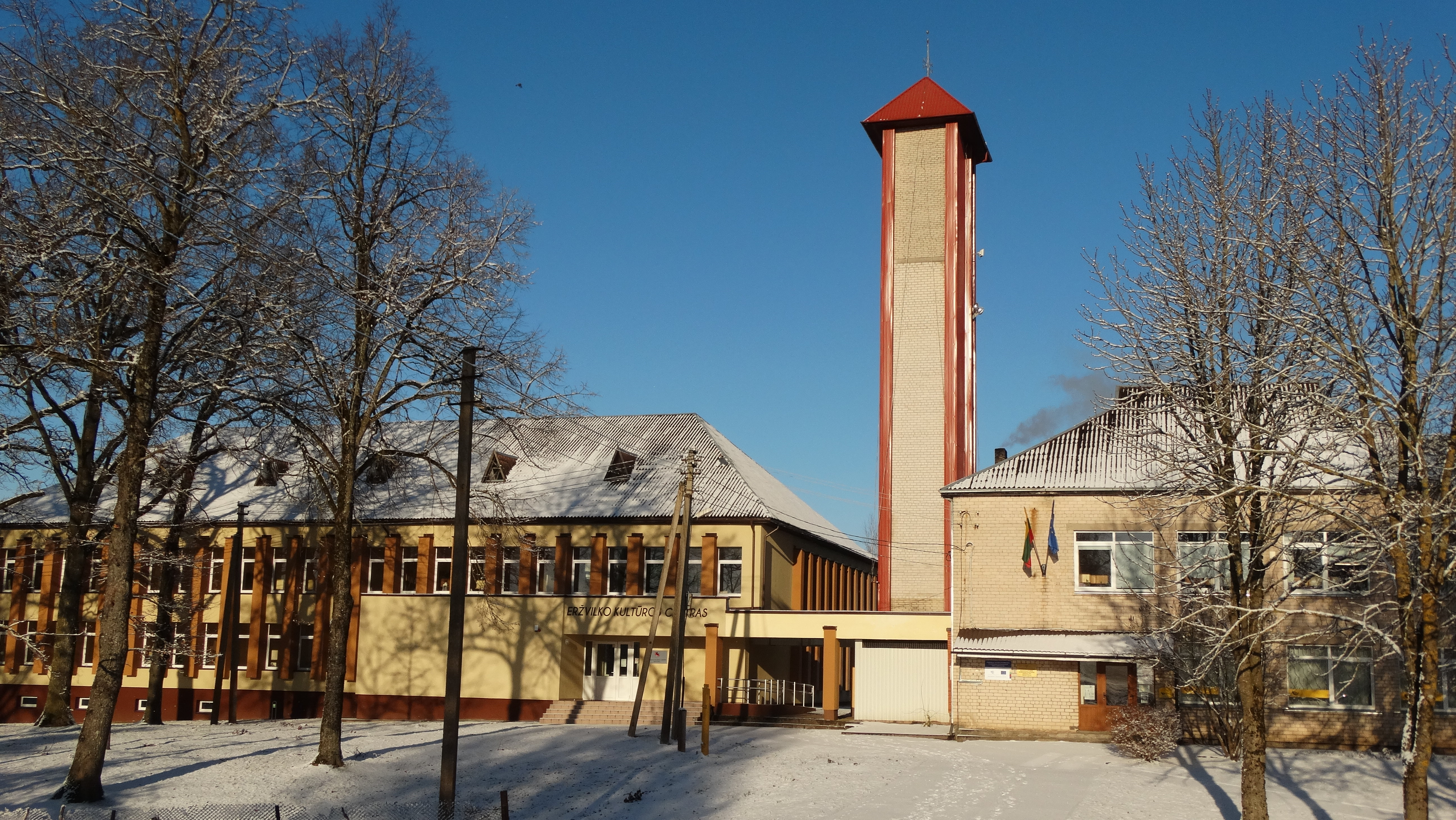 Eržvilkas, Jurbarkas, Lithuania